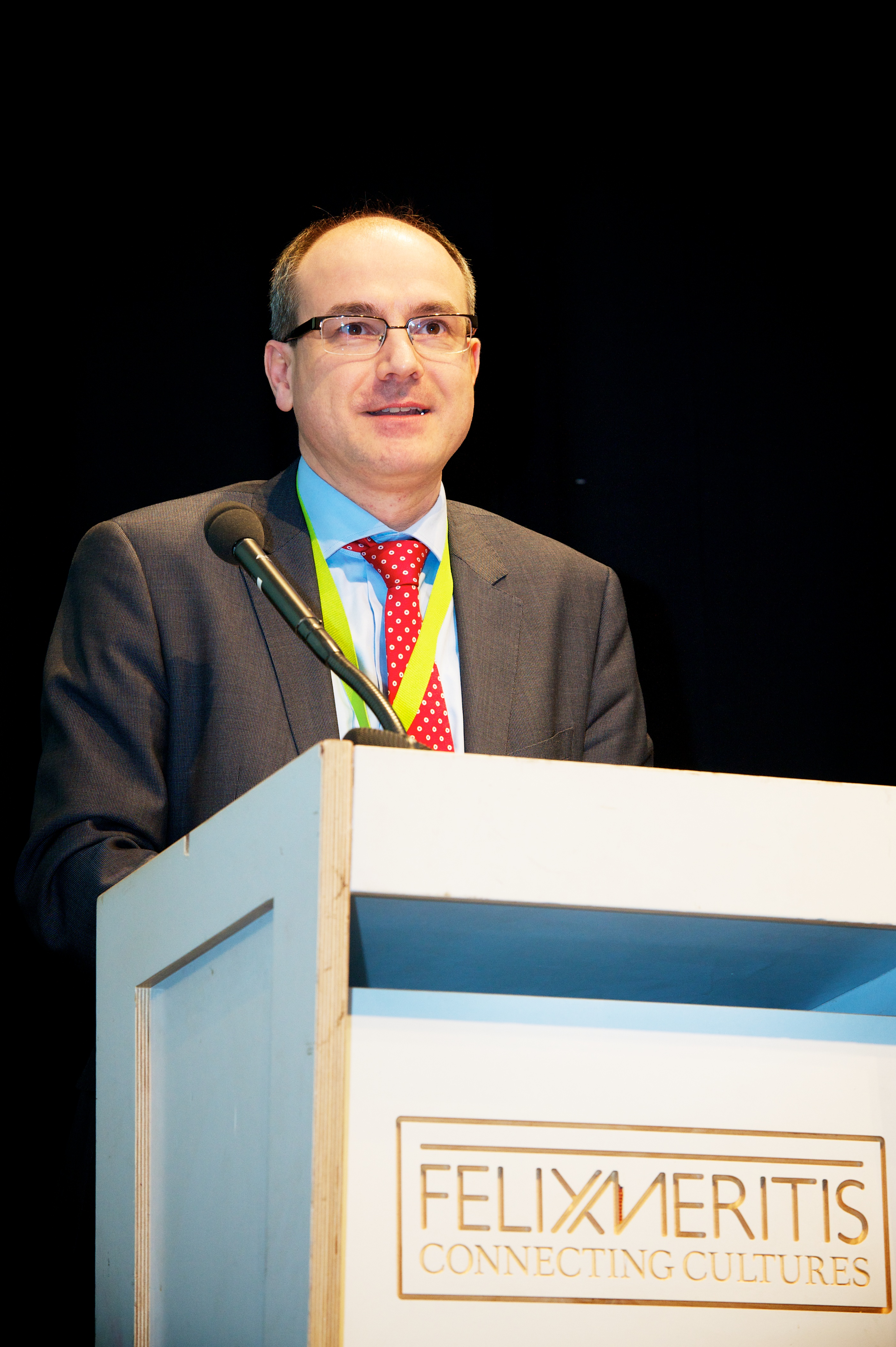 Managing Director CatchBio prof Bert Weckhuysen welcomes all participants.